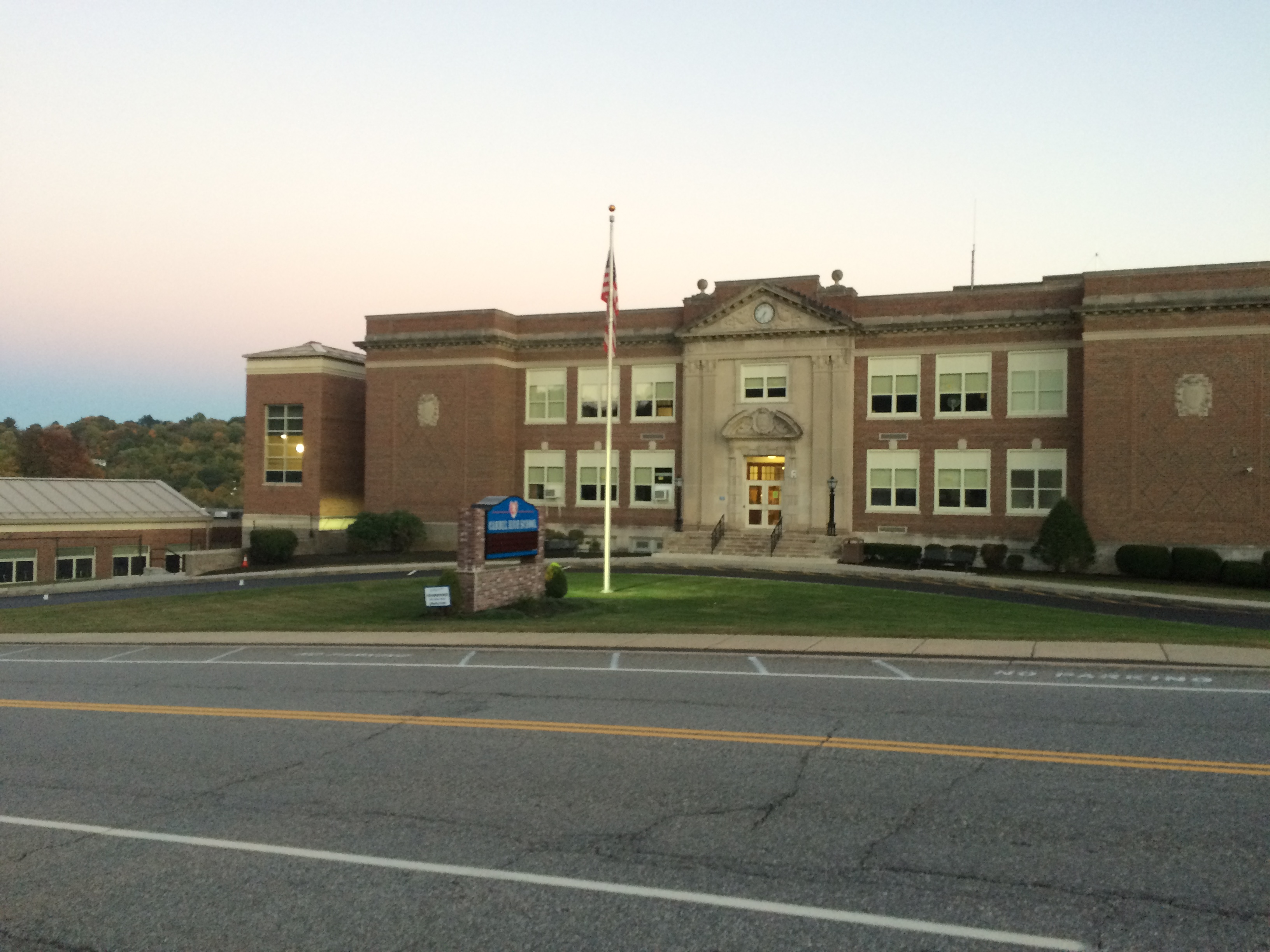 An image of Carmel Highschool in NY.